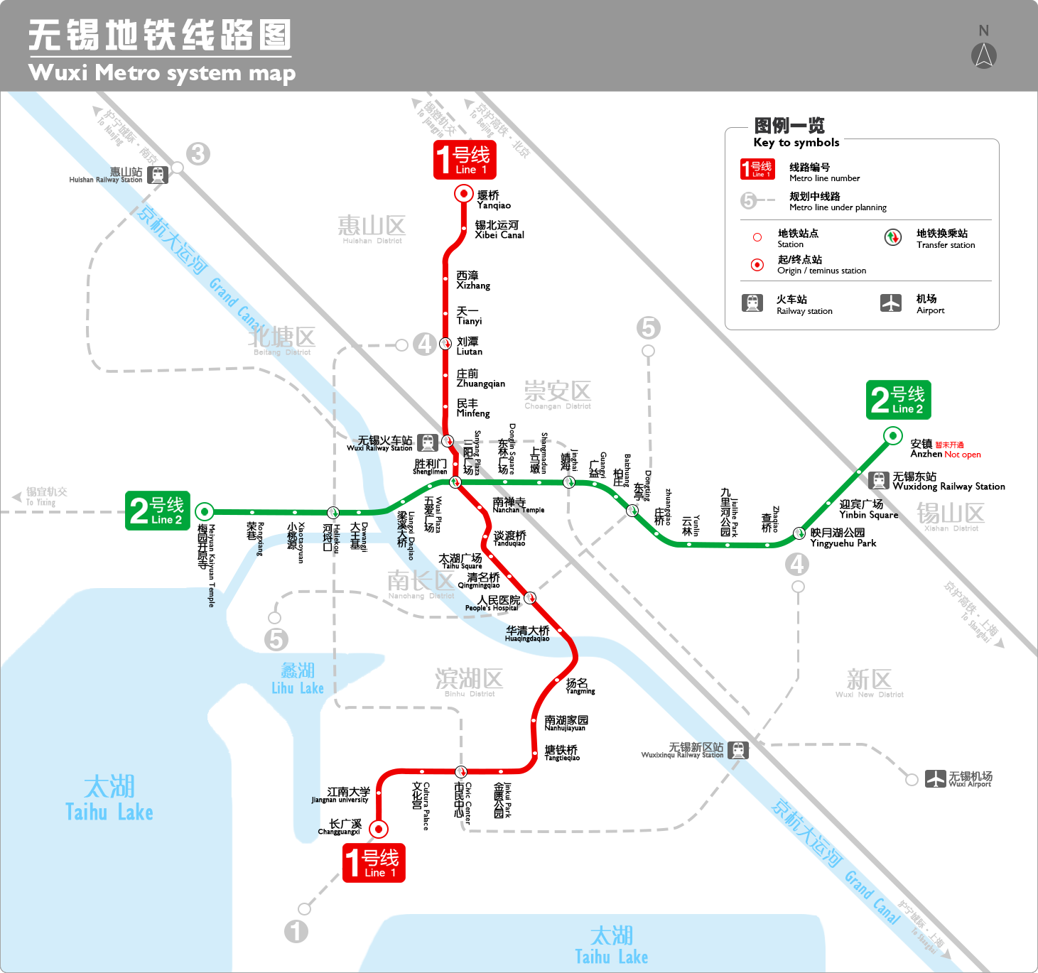 Wuxi Metro System Map